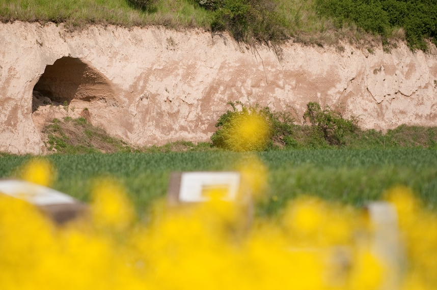 Krufter Bachtal, view